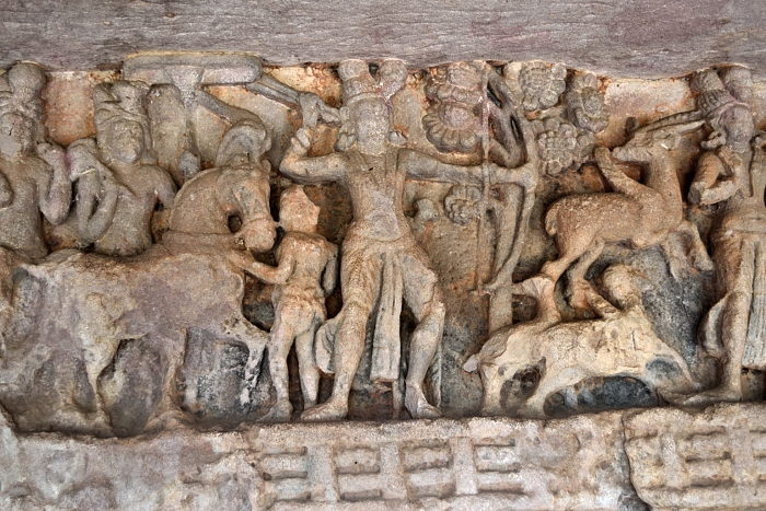 All ancient caves, structures and other monuments or remains situated on the OUdaygiri and the Khandagiri hills except the temple of Parasnath on the top of the Khandagiri hill and also the temple in front of the Barabhuji and the Trisula Caves